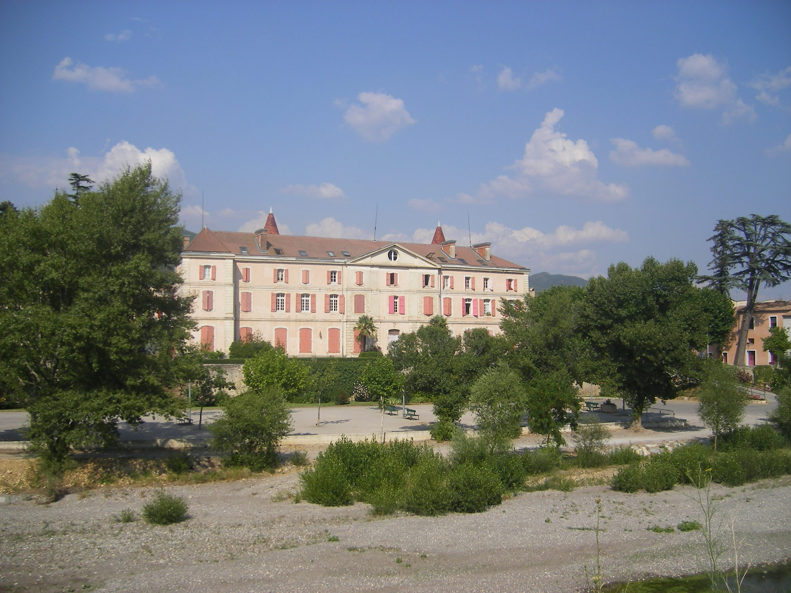 The castle of Malijai